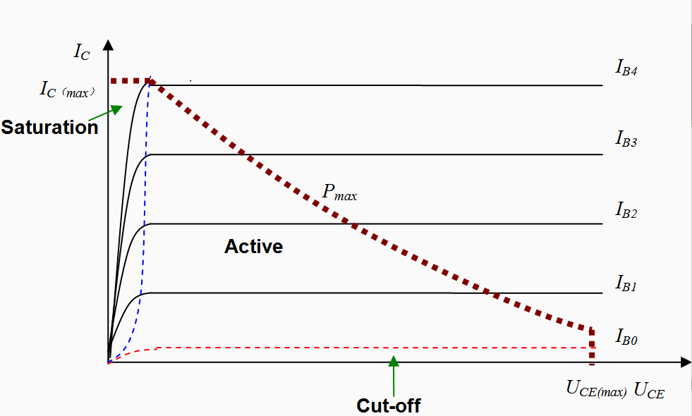 The relationship of collector current and collector-emitter voltage in bipolar junction transistor.